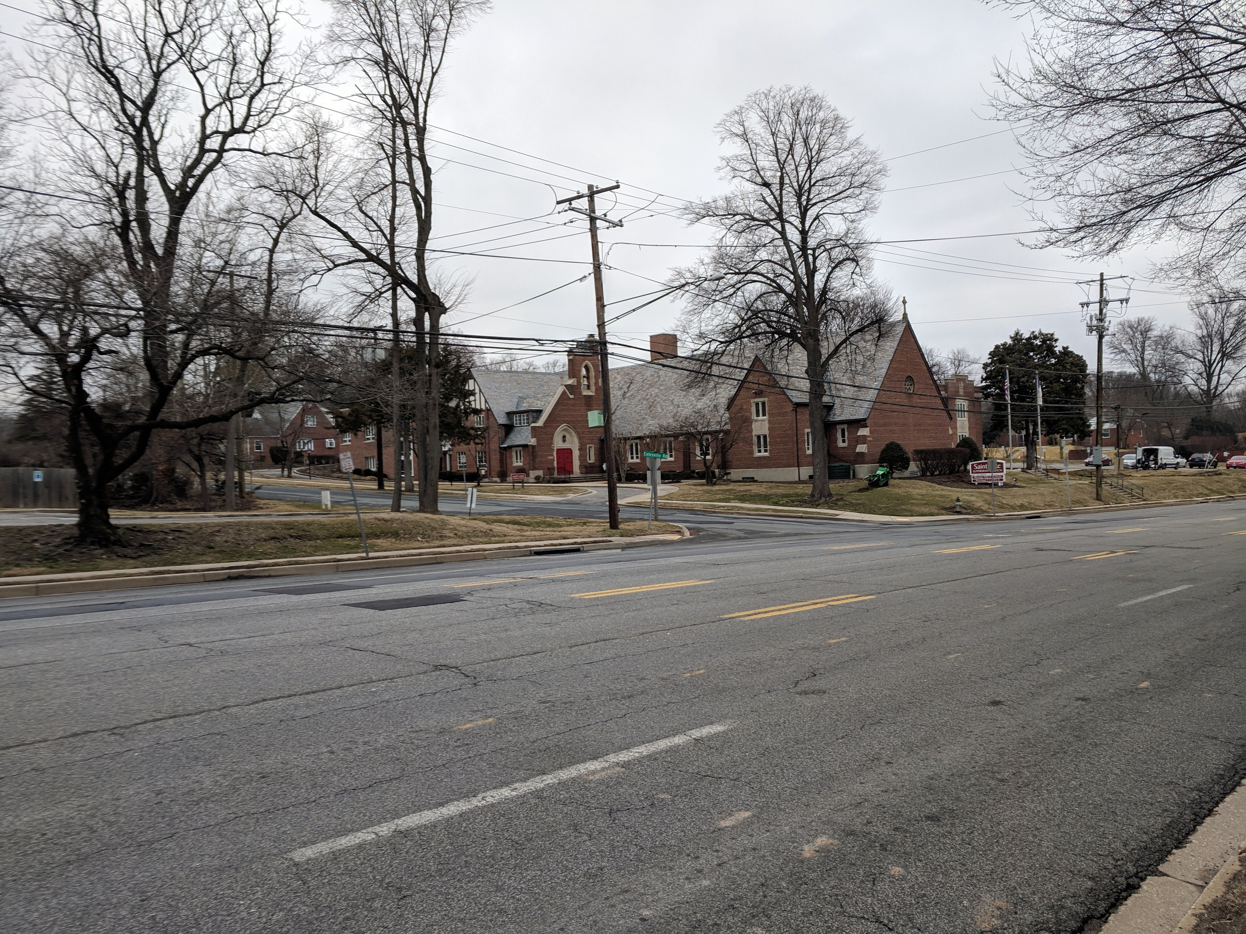 U.S. Route 29 in Silver Spring, Maryland.